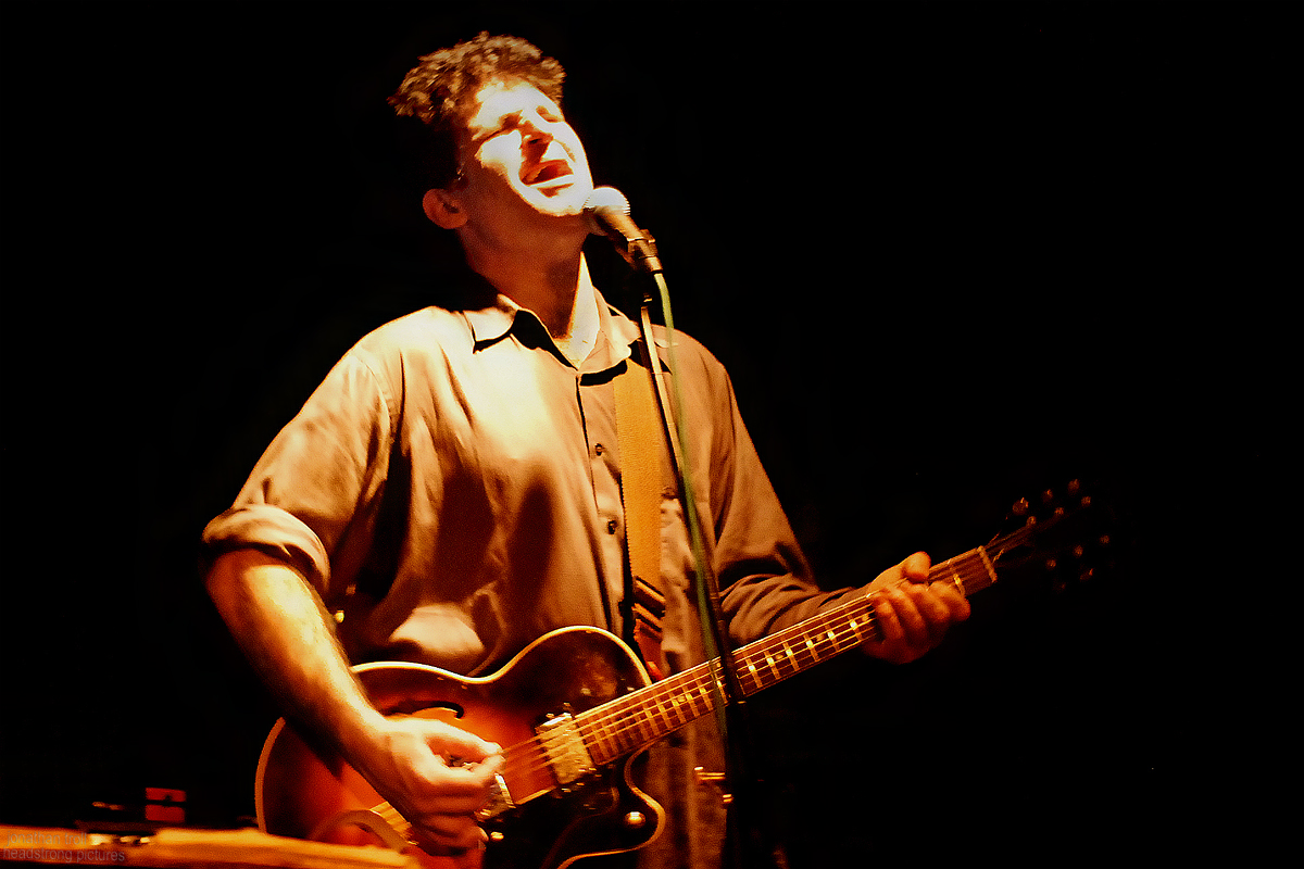 Tony Scherr on December 4, 2007 at Marion's Marquee Lounge on the Bowery in New York City's East Village. Musician/solo artist/producer Tony Scherr launched a weekly music series at The Marquee (featuring a different special guest each week followed by his own trio with bassist Rob Jost and drummer Anton Fier) in late 2006 that ran until the venue closed at the end of 2007.